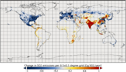 Change in regional distribution of anthropogenic land based SO2 emissions. Changes indicated as a difference between 2010 and 2005 emissions in 0.5° × 0.5° grids.